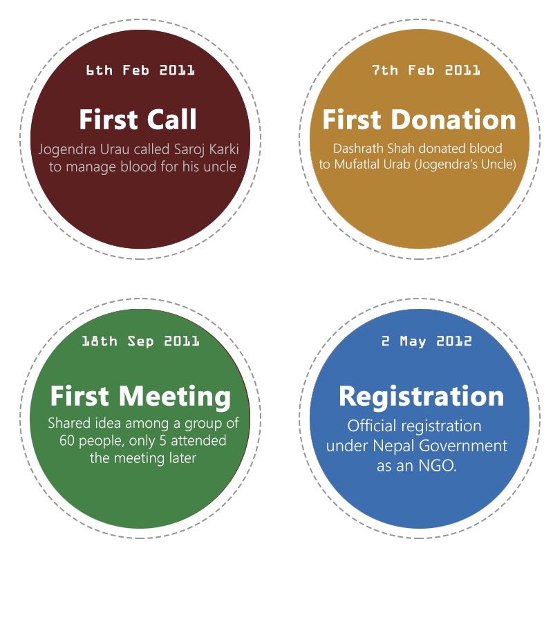 Starting Story diagram of Youth For Blood